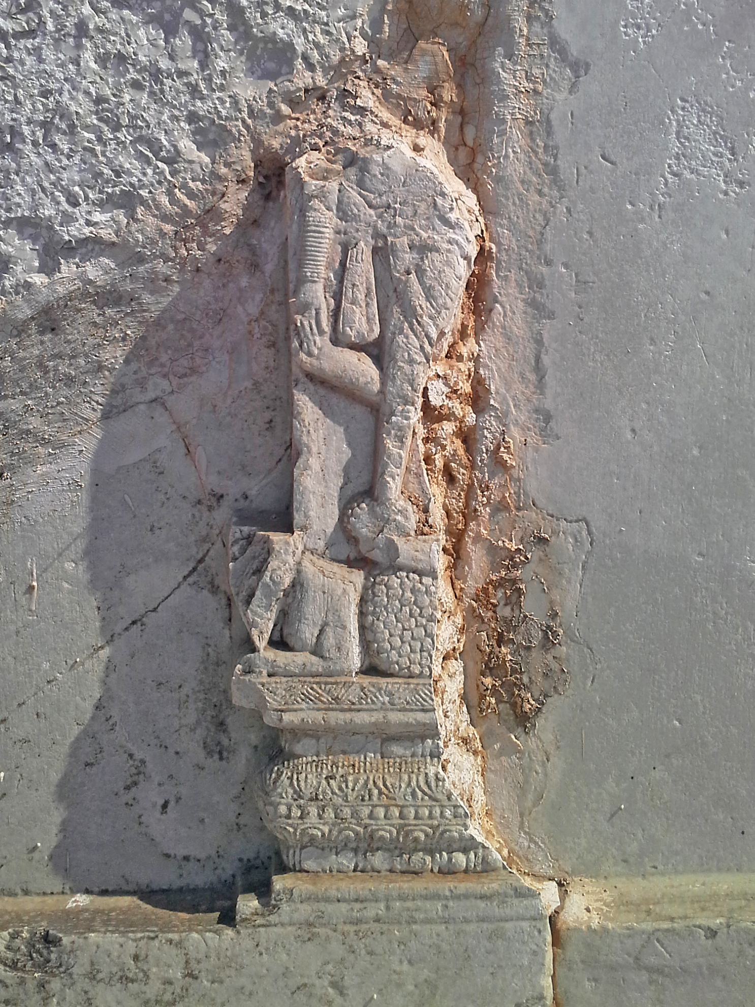 Sculpted relief on Jaggayyapeta Buddhist stupa from the school of Amaravathi art